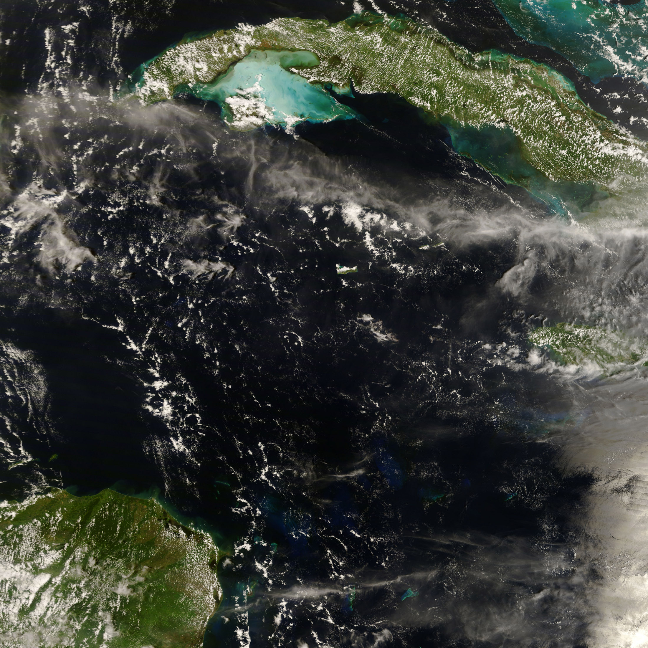 In the aftermath of Hurricane Gustav, waters off the southern coast of Northern Cuba were significantly churned up by the 150mph winds and 30 foot swells Gustav came roaring ashore with.